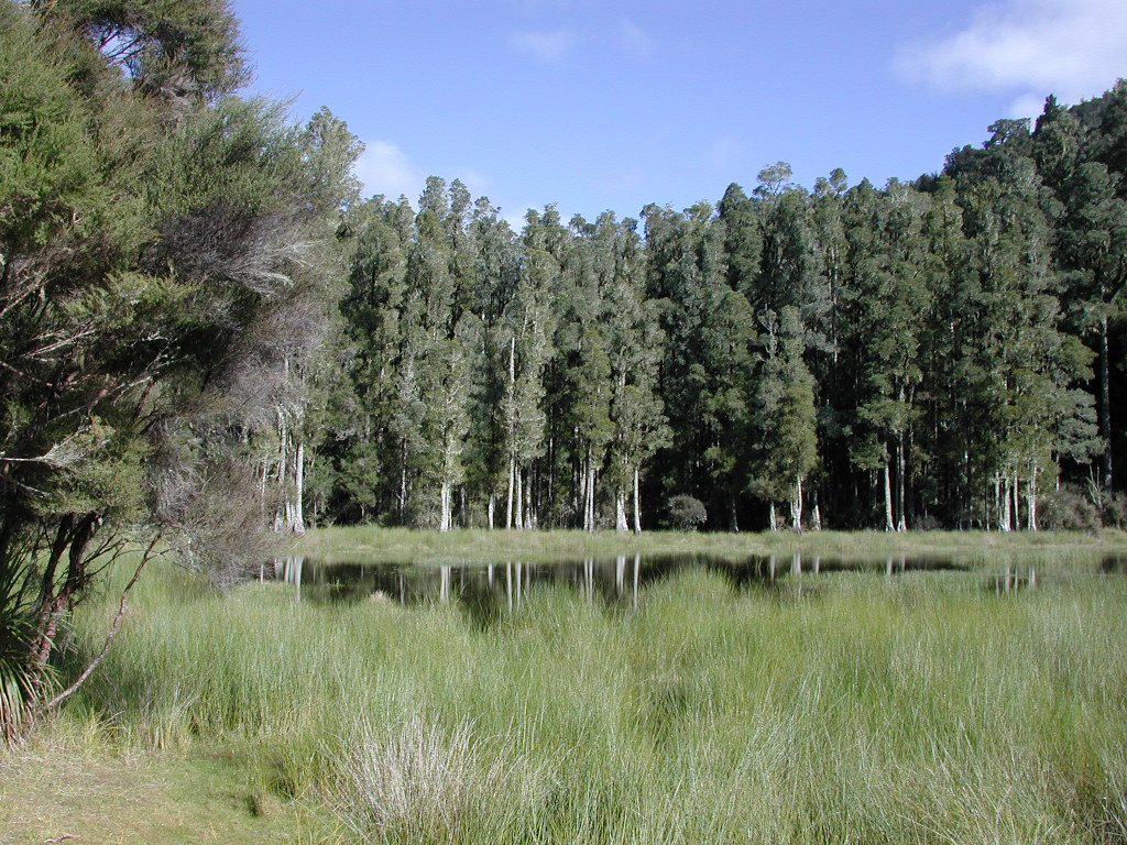 Arohaki Lagoon with kahikatea forest in the background (Whirinaki Forest Park near Rotorua, New Zealand).